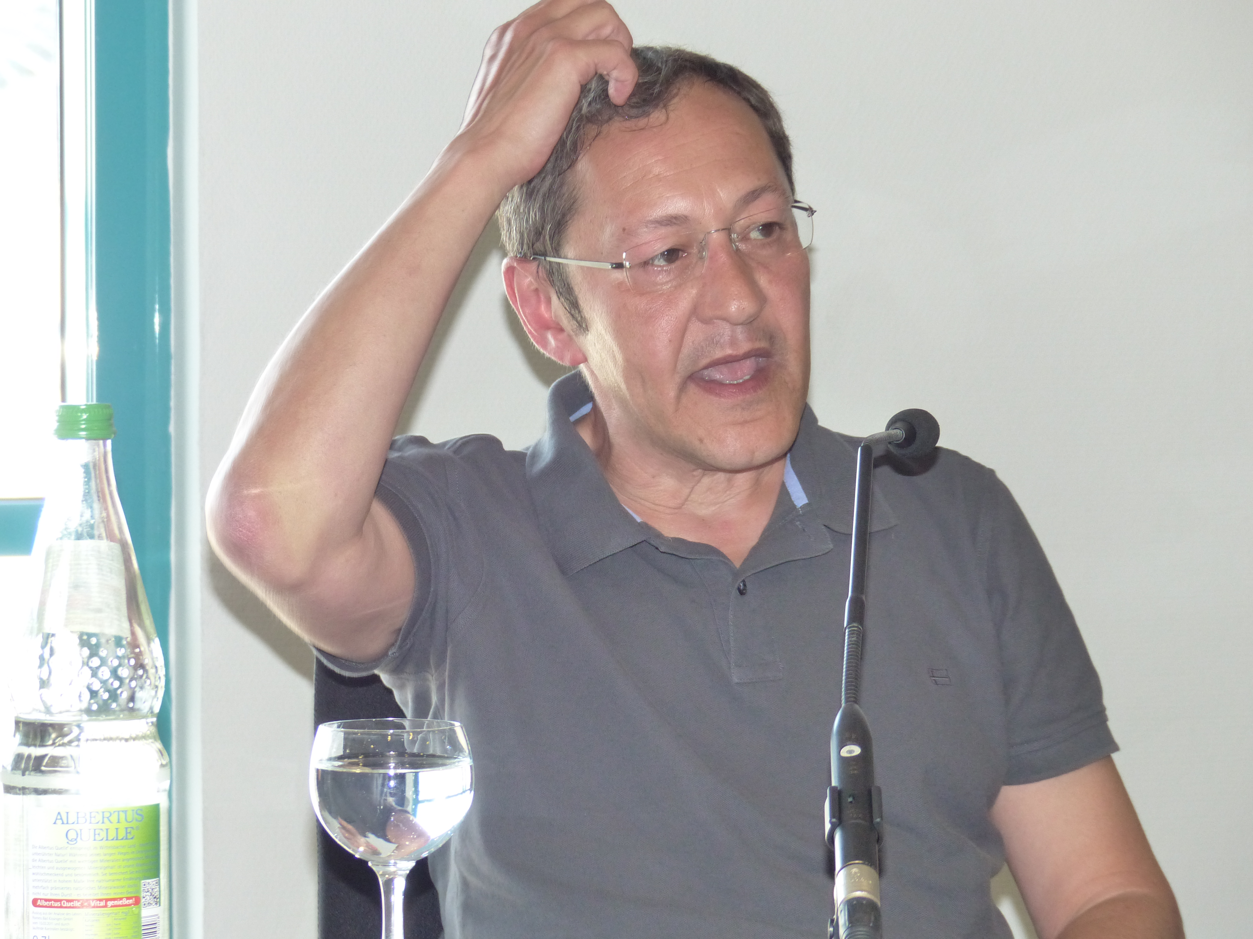 Akif Pirinçci at the Deutscher Sudetentag 2014 in Augsburg, cropped and color-corrected version